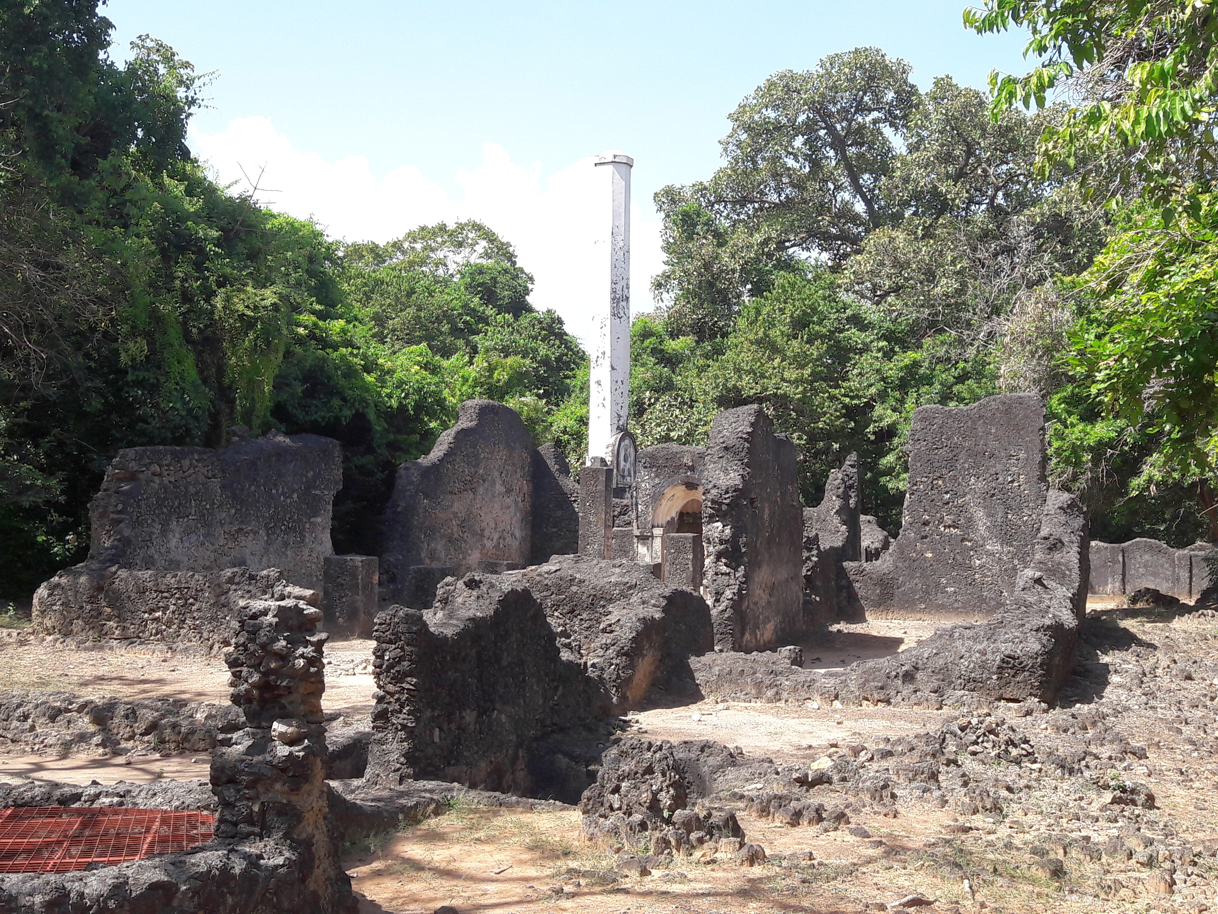 View of the Mnarani ruins in Mnarani, near Kilifi town, in Kilifi County.